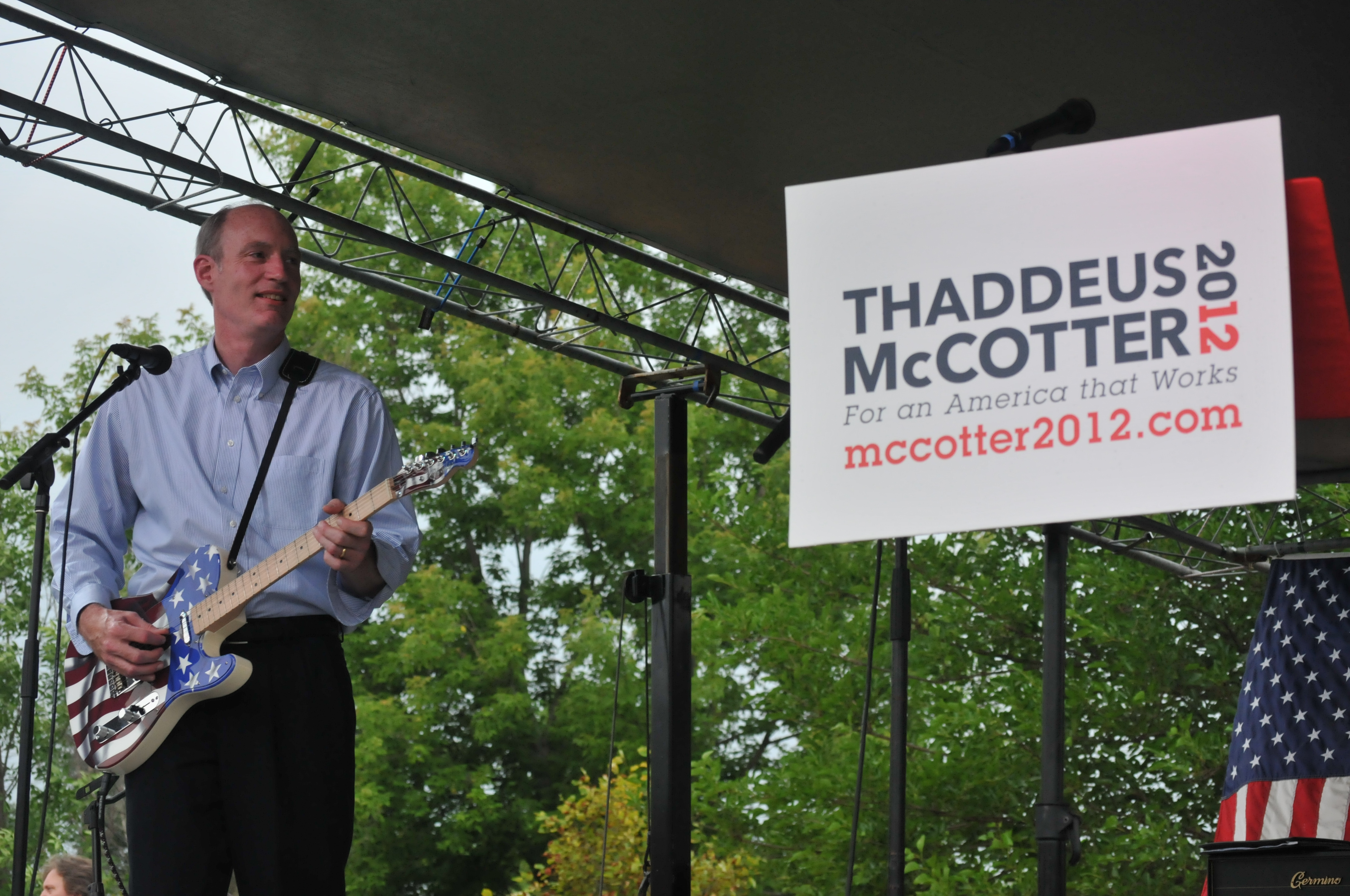 Thad McCotter's Presidential Candidacy Announcement